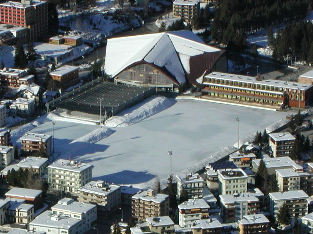 The "Eisstadion Davos" with the open-air "Kunsteisfläche" (left with sunshader) and the biggest natural ice area of Europe - taken from paraglider